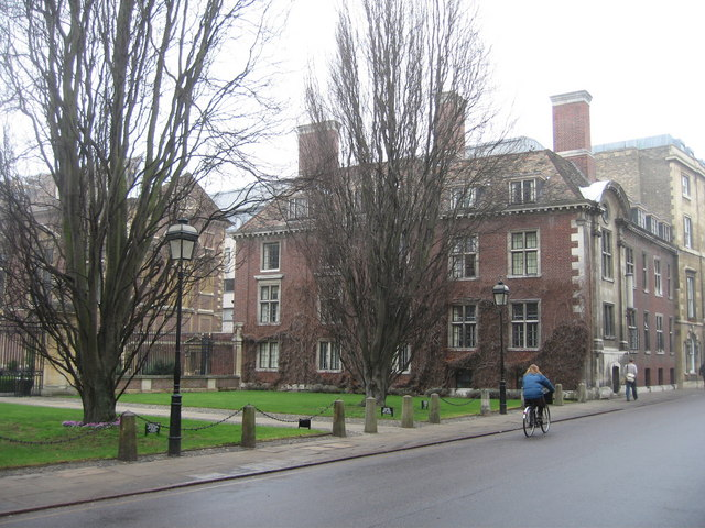 St Catharine's College